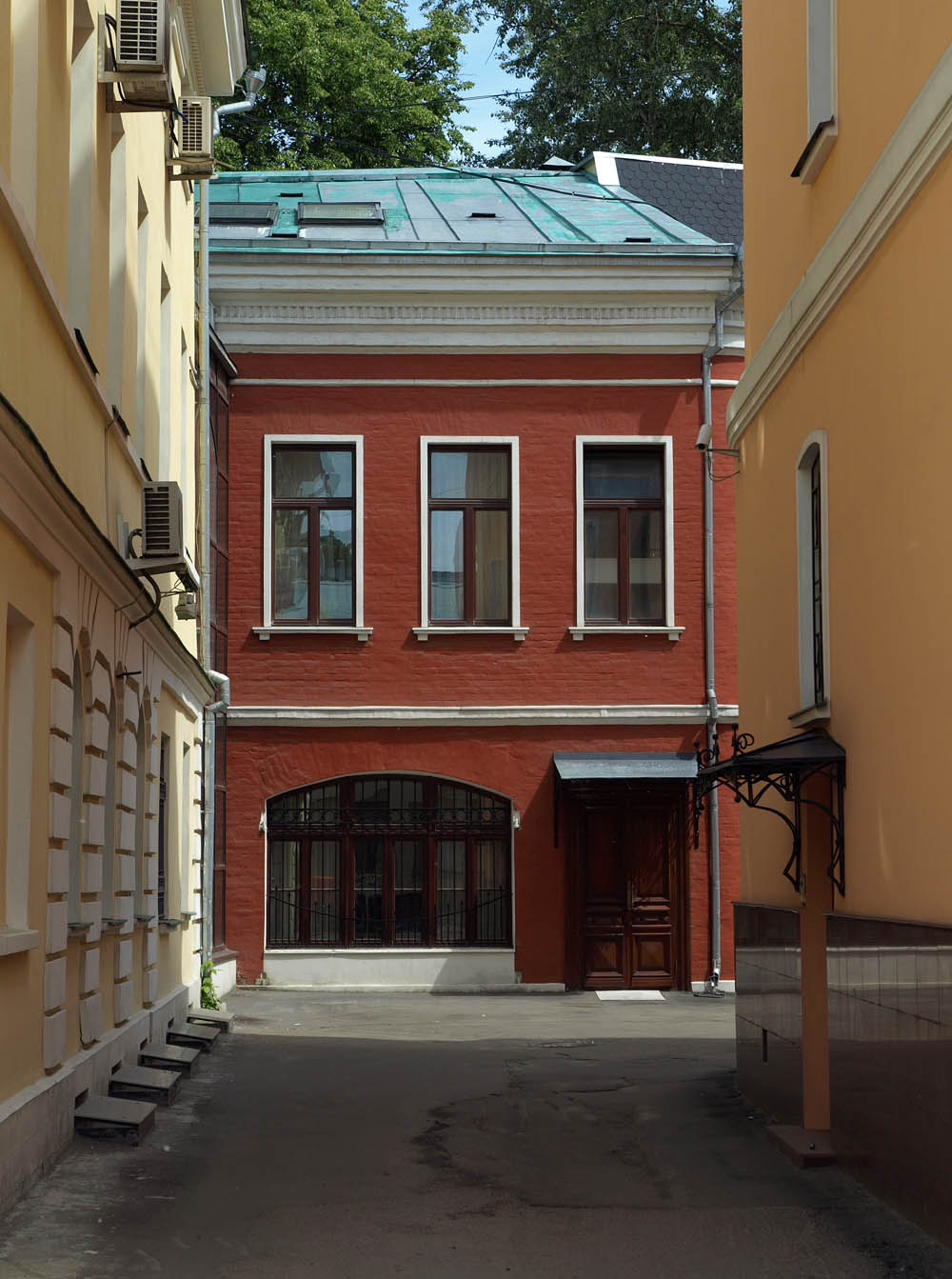 3, Lyalin Lane, Moscow. Early 19th century.